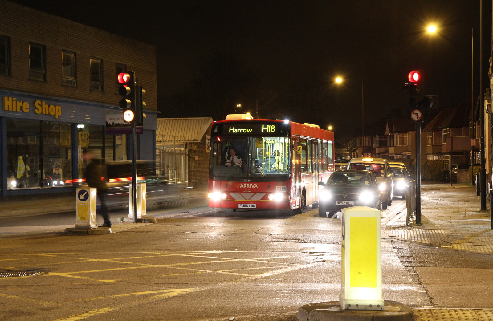 Kenton Lane at Night, Data from Geograph: Description: Seen at the junction with Kenton Road. An Arriva The Shires VDL with Wright Cadet body waits at the lights with an H18 service to Harrow bus station. ICBM: 51.587002120323, -0.30668414155393 Location: (about 0 km from) near to Kenton, Brent, Great Britain.